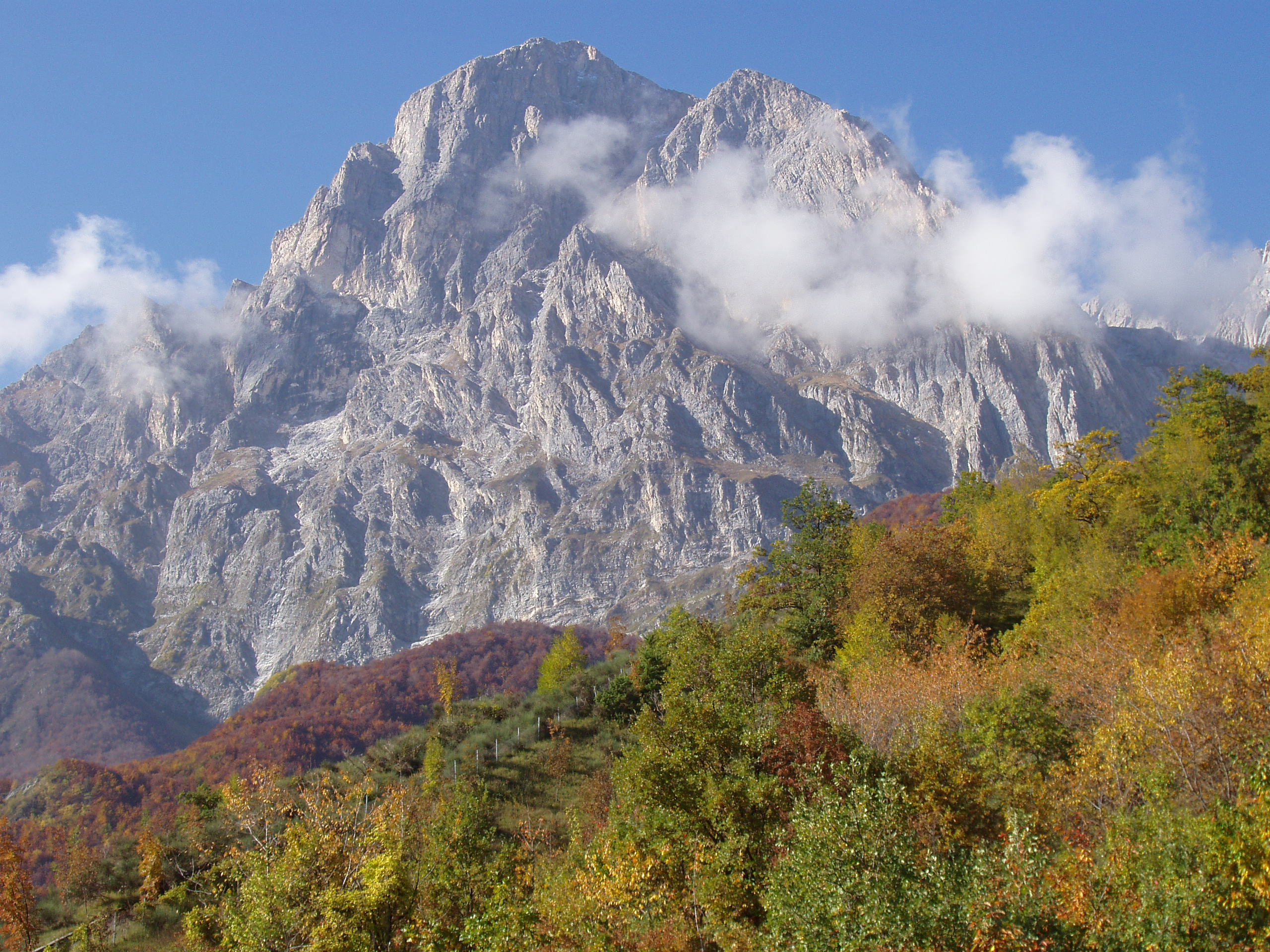 Description: Il Gran Sasso d'Italia, il Paretone. The east face of Corno Grande author: Lucio De Marcellis